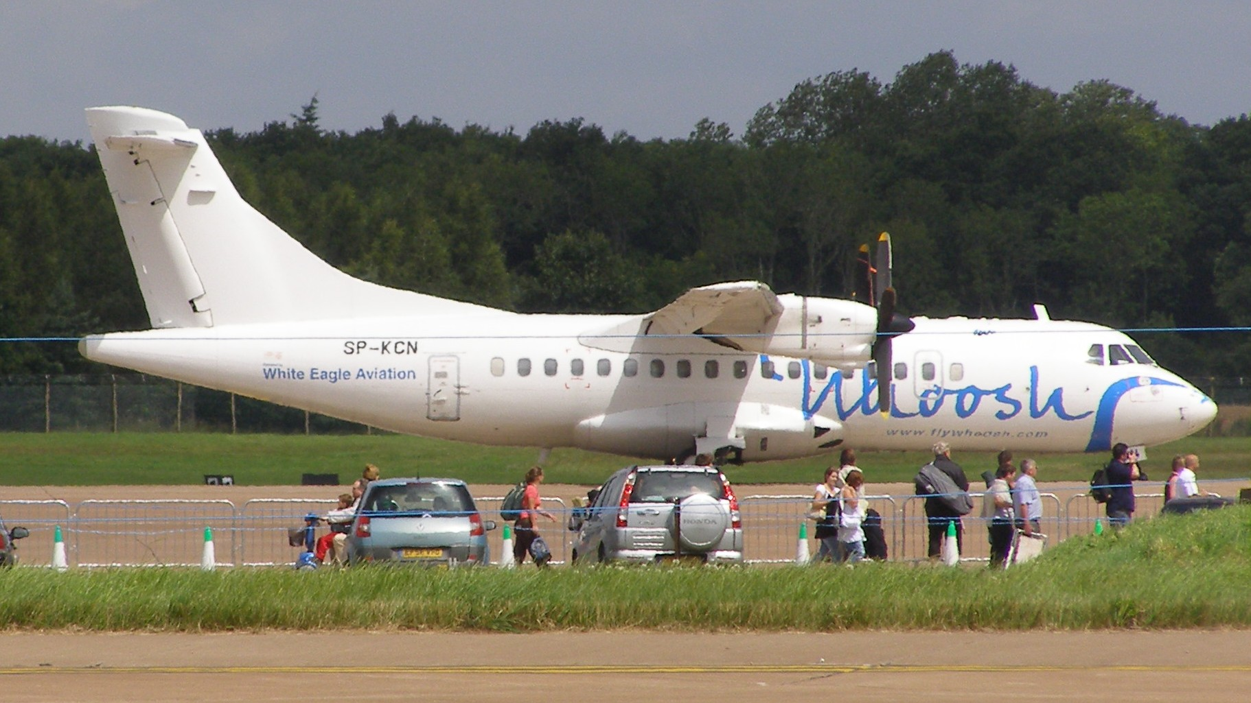 SP-KCN a ATR 42-320 operated for flywhoose by White Eagle Aviation visiting the Royal International Air Tattoo 2007 at RAF Fairford, England.